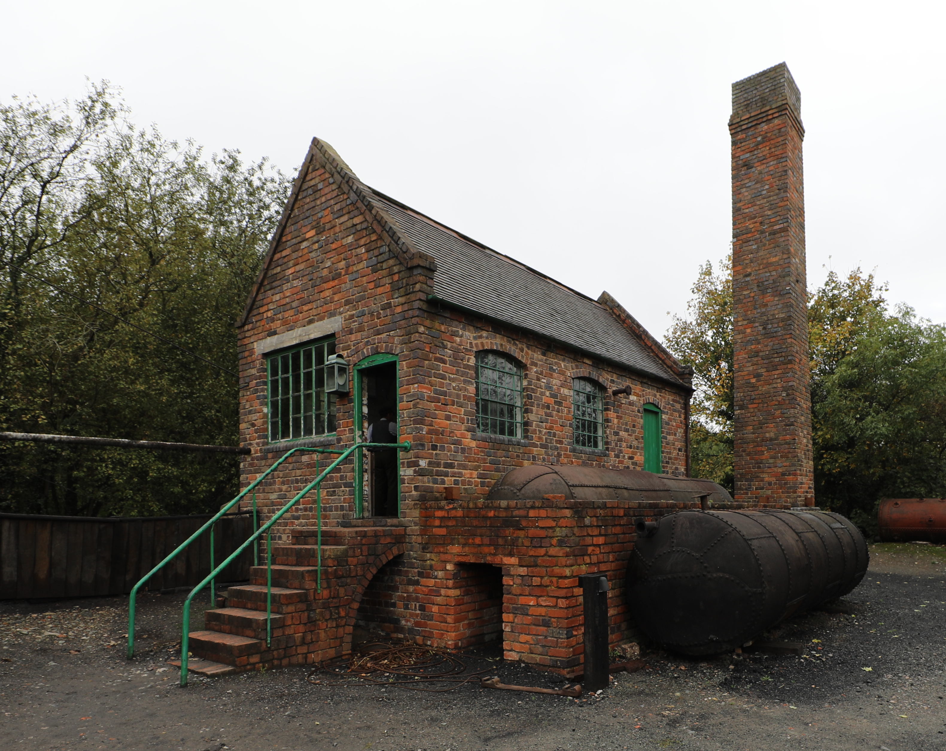 pohoto of the exterior winding engine house at black country living museum's Racecourse Colliery